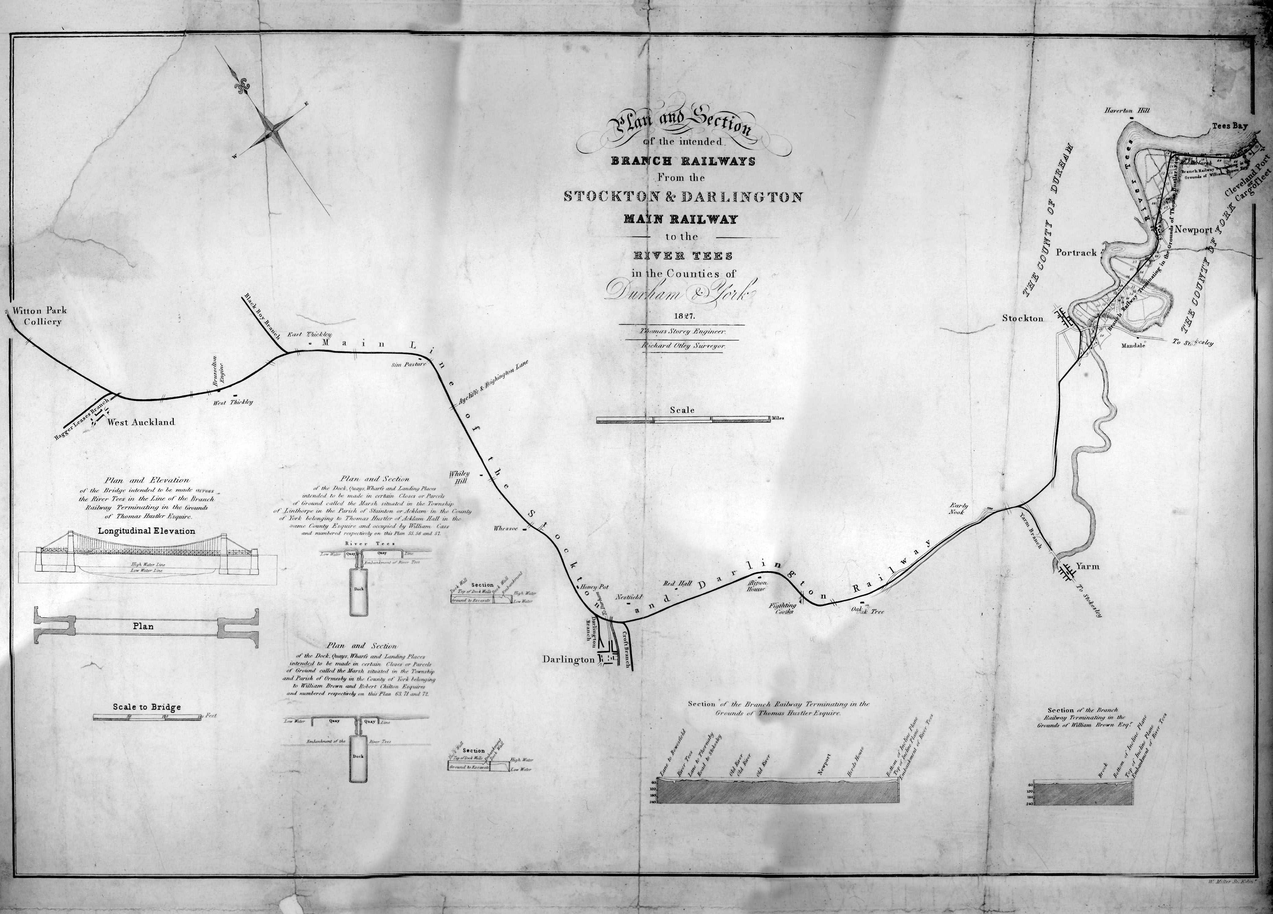 Plan and Section of the Intended Branch Railways from the Stockton and Darlington Main Railway to the River Tees in the Counties of Durham and York, 1827, Thomas Storey Engineer, Richard Otley Surveyor, W Miller Sc. Edinr